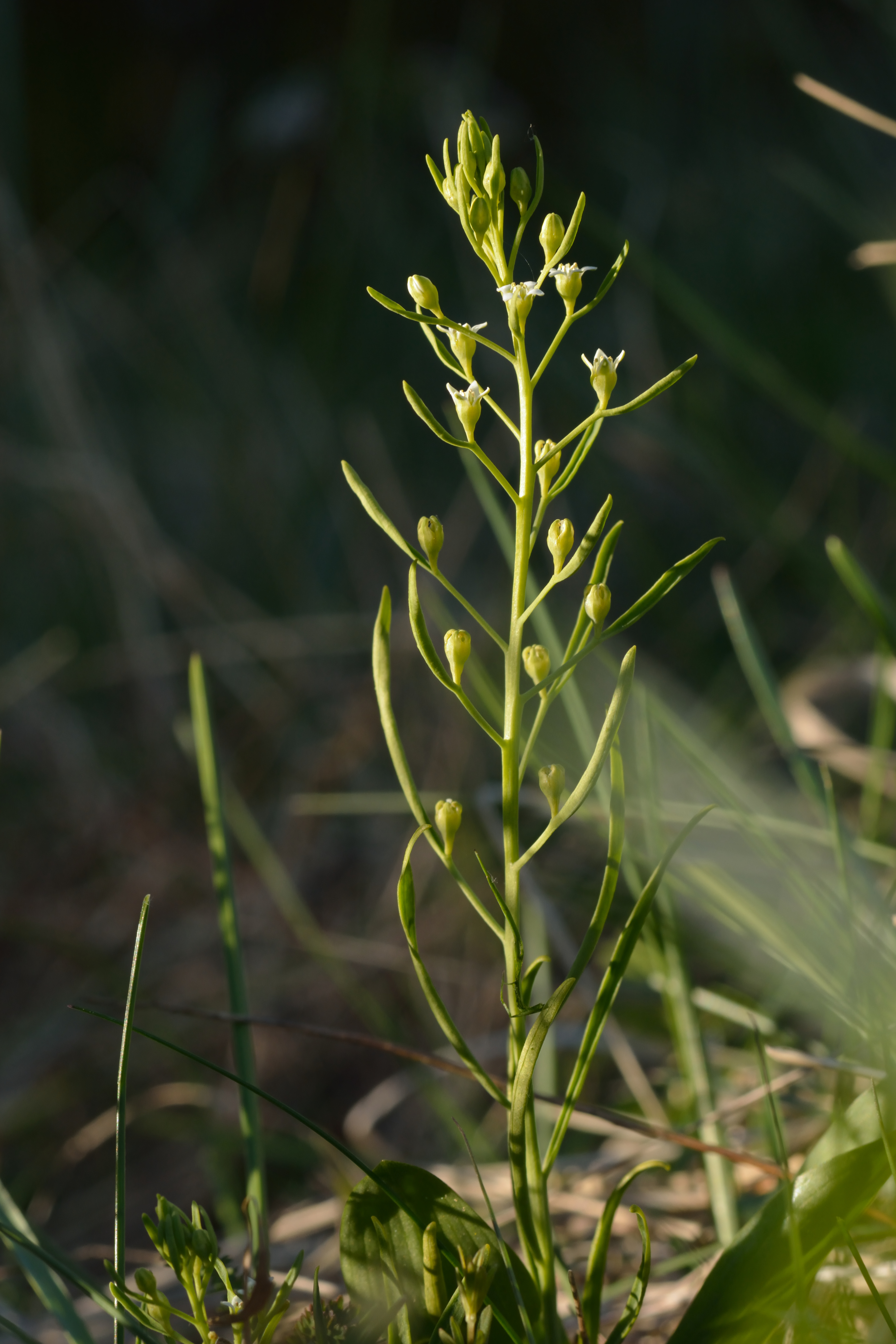 The Bastard Toadflax (Thesium ebracteatum). Keila, Northwestern Estonia.